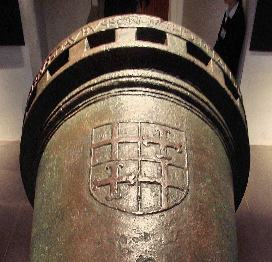 Arms of the Knights Hospitallers, quartered with those of Pierre d'Aubusson, on a bombard for Rhodes ordered by the latter. The top inscription further reads: "F. PETRUS DAUBUSSON M HOSPITALIS IHER".